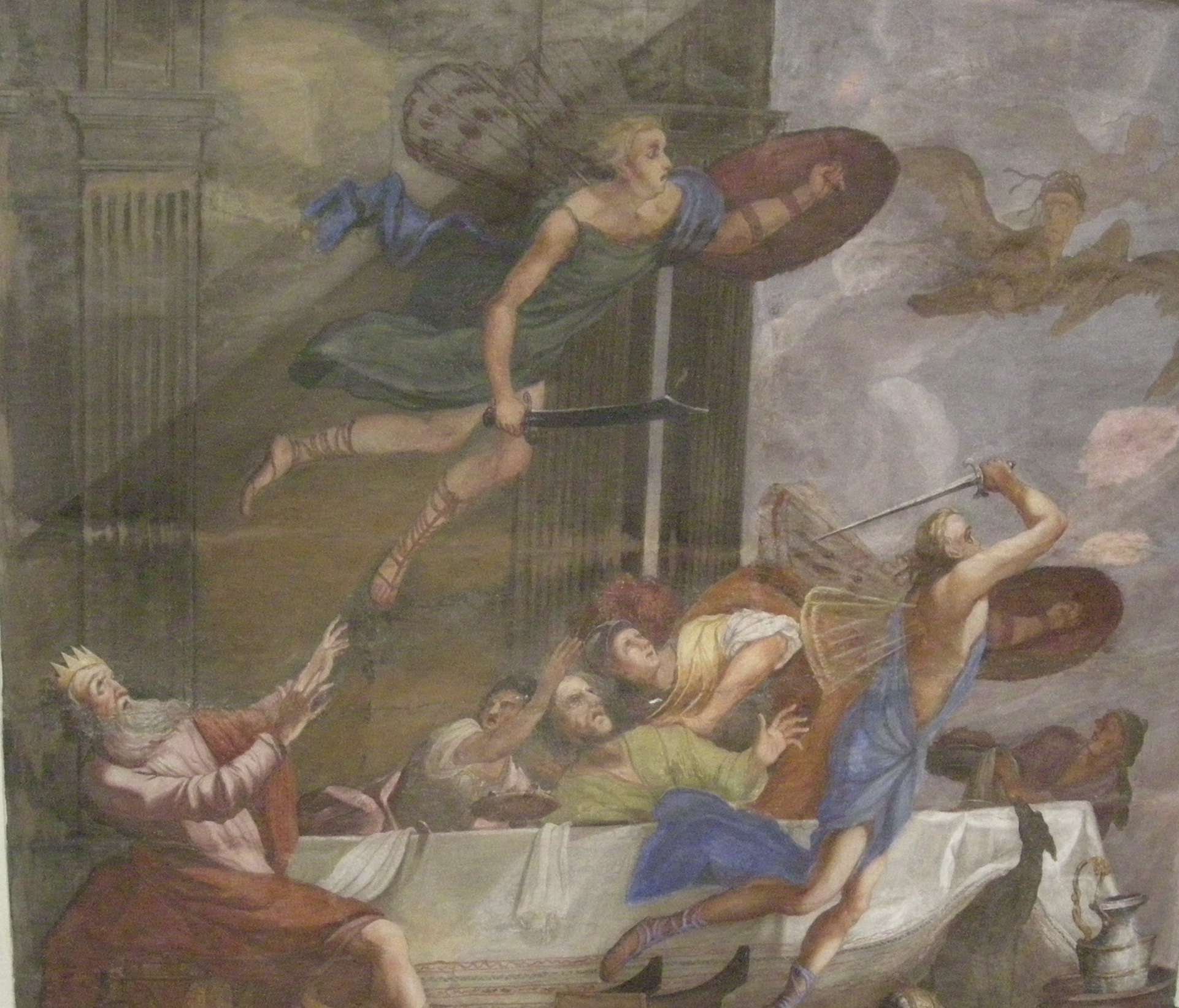 Fresco of Harpies in castle Štatenberg near Makole, Slovenia